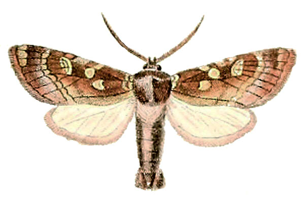 The drawing attached to the first scientific inscription of the species, by M. Pierret, in 1837, published in the "Annales de la Société entomologique de France" Tome Sixieme, Paris/Strasbourg